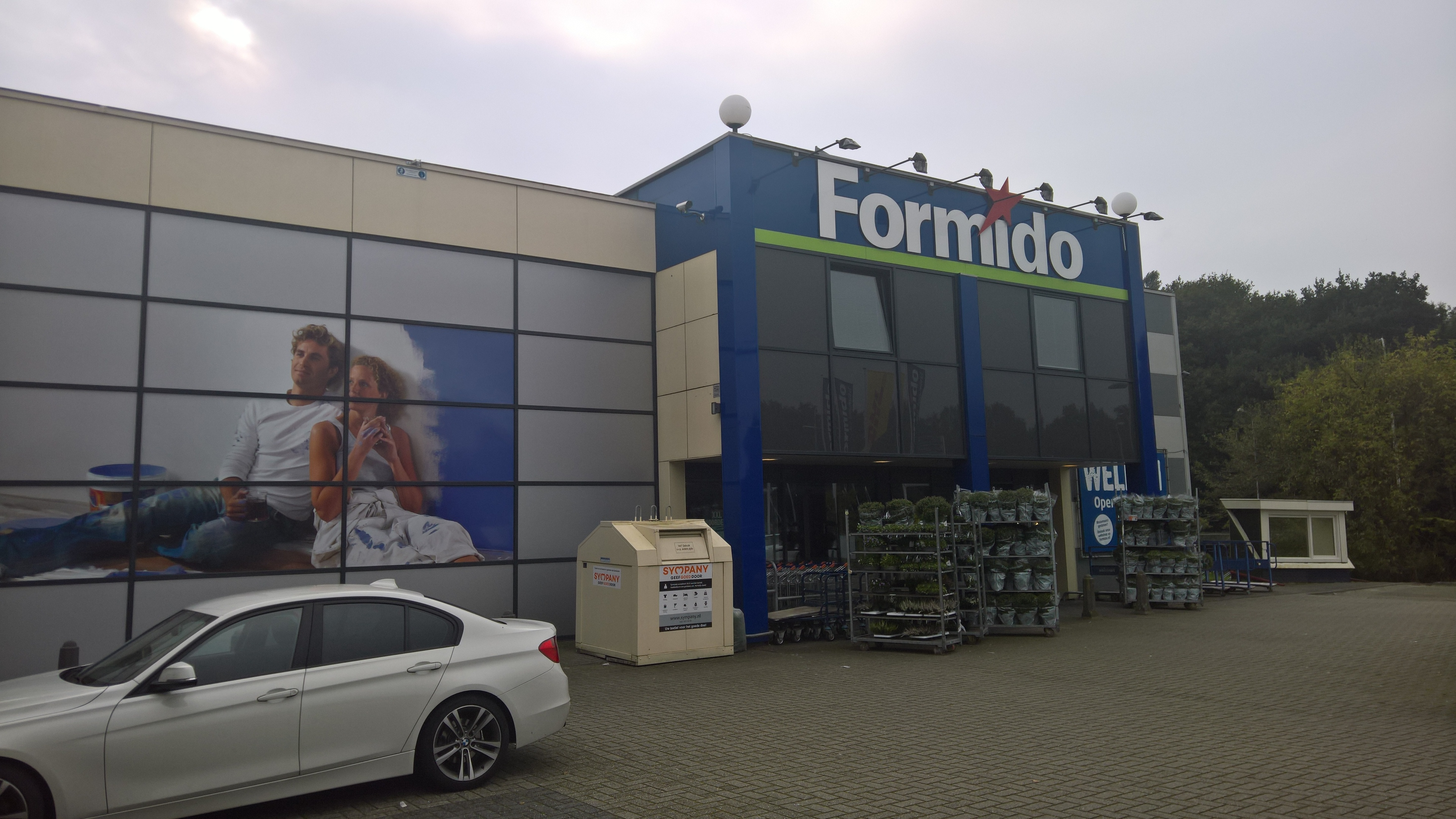 A Formido interior and exterior design establishment in Winschoten, Groningen.